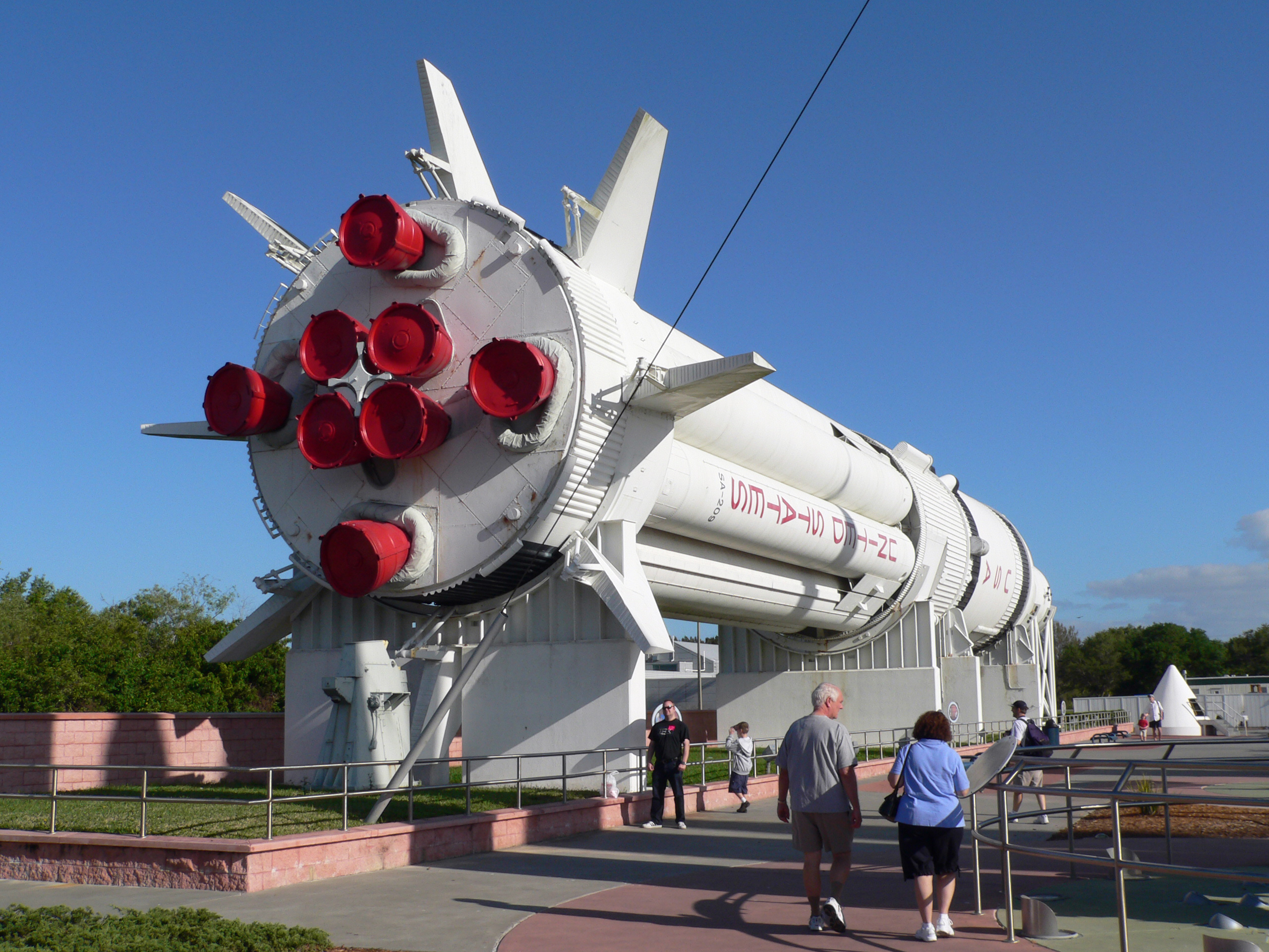 Saturn rocket in the Rocket Garden. The Saturn rockets was used on the Apollo missions and more. Exactly this rocket (SA-209) served as a backup launch vehicle during the manned Skylab missions.